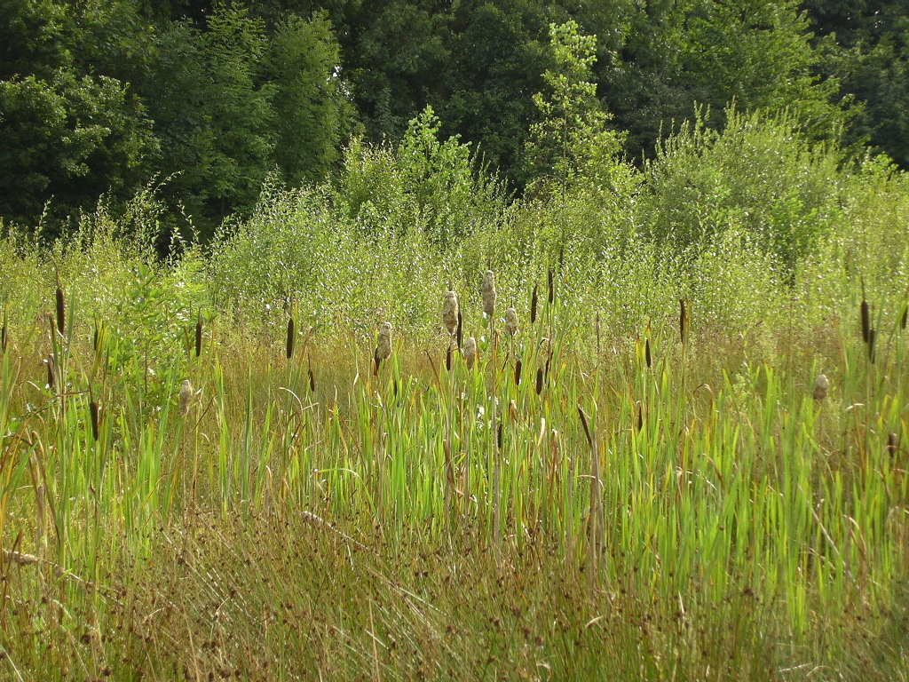 Photograph of wetlands in Abney Hall in Greater Manchester, England.